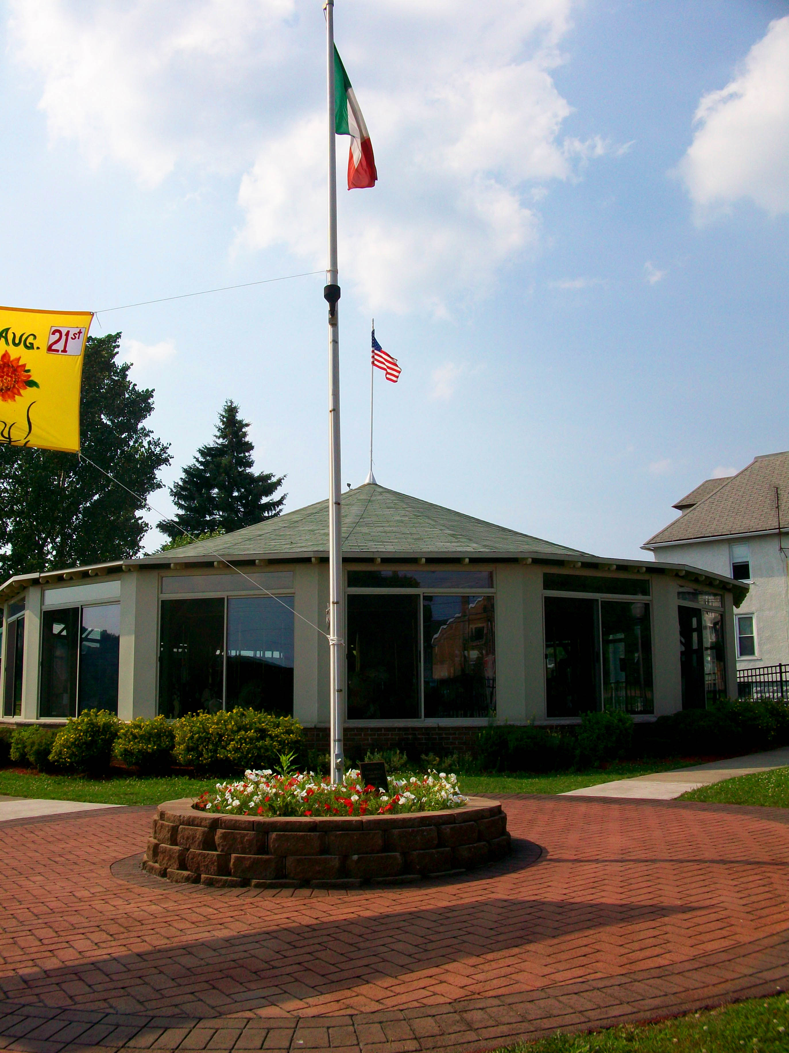 Carousel in North-side Park (also known as George W Johnson Park): Endicott, NY